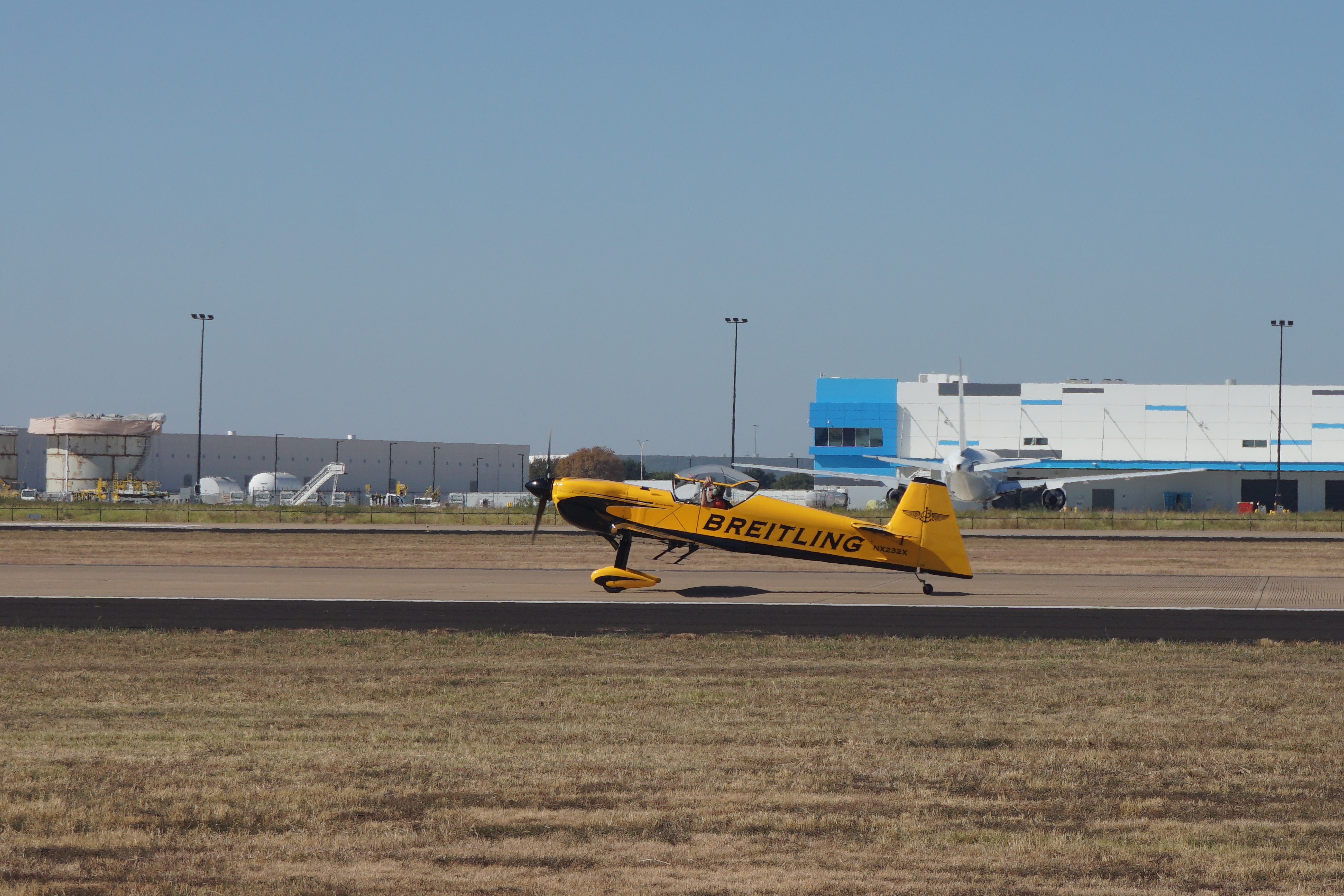 Mike Gallaway's Mudry CAP 230 at the 2019 Fort Worth Alliance Air Show at Fort Worth Alliance Airport in Fort Worth, Texas (United States).